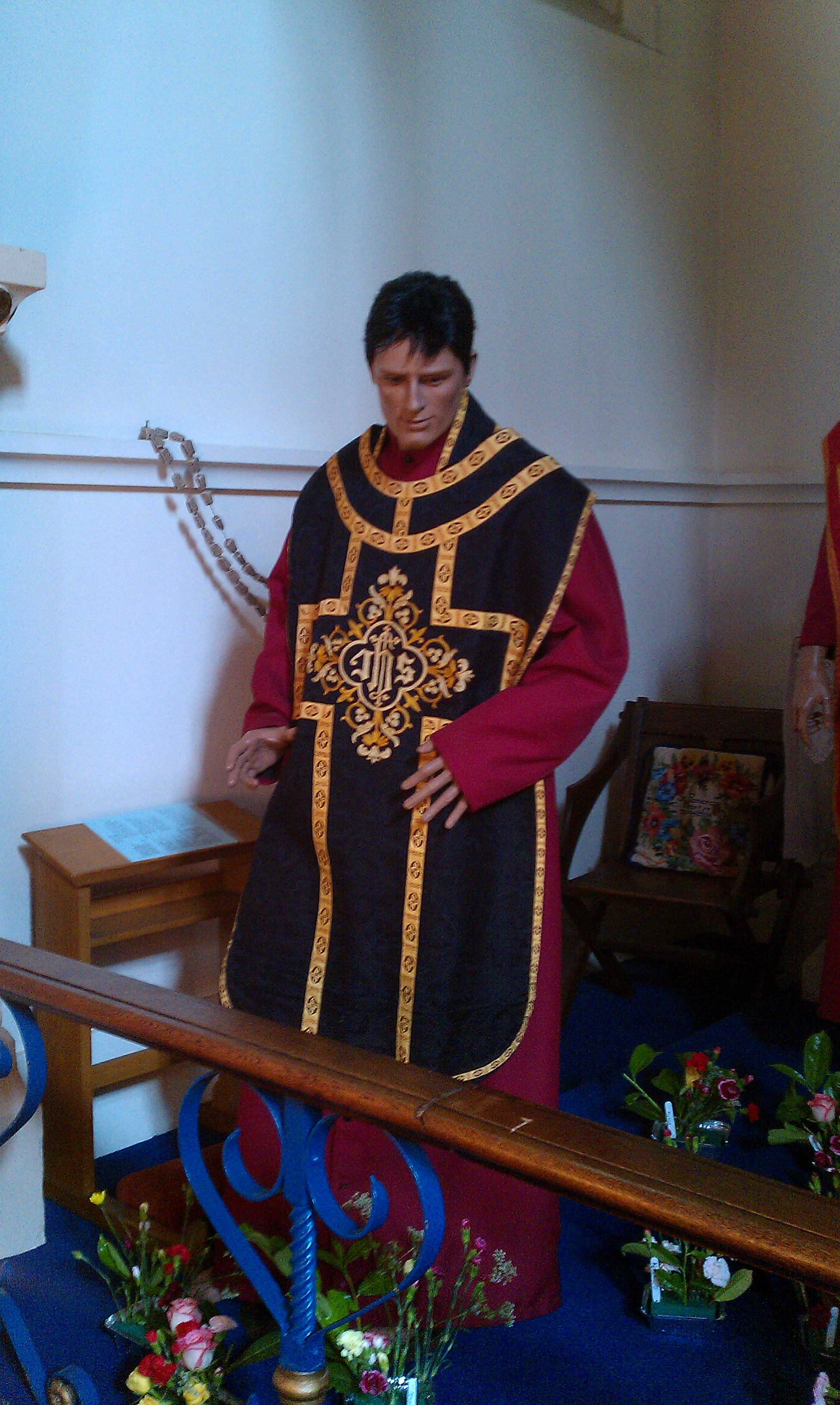 An example of a pre-Vatican II vestment from Saint Pancras Church